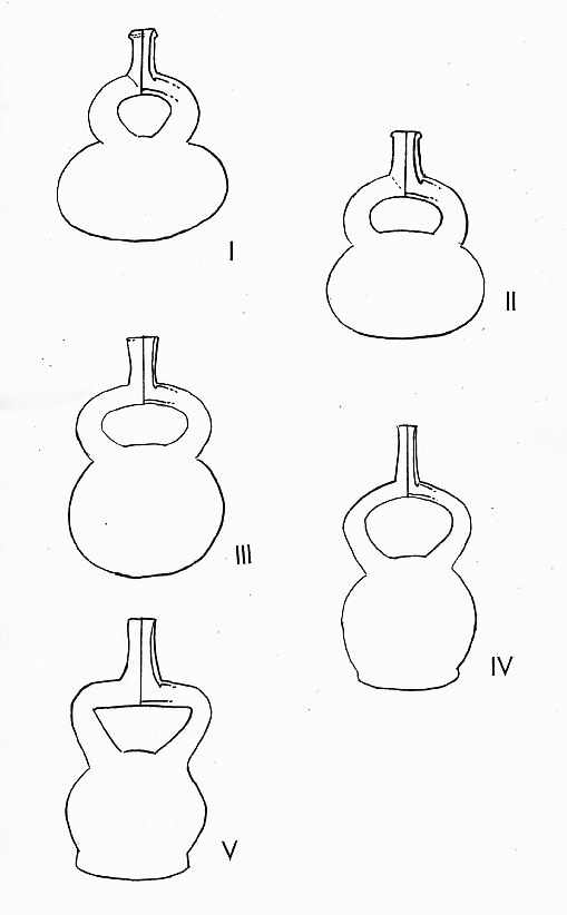 5 phases of the Mochica potery